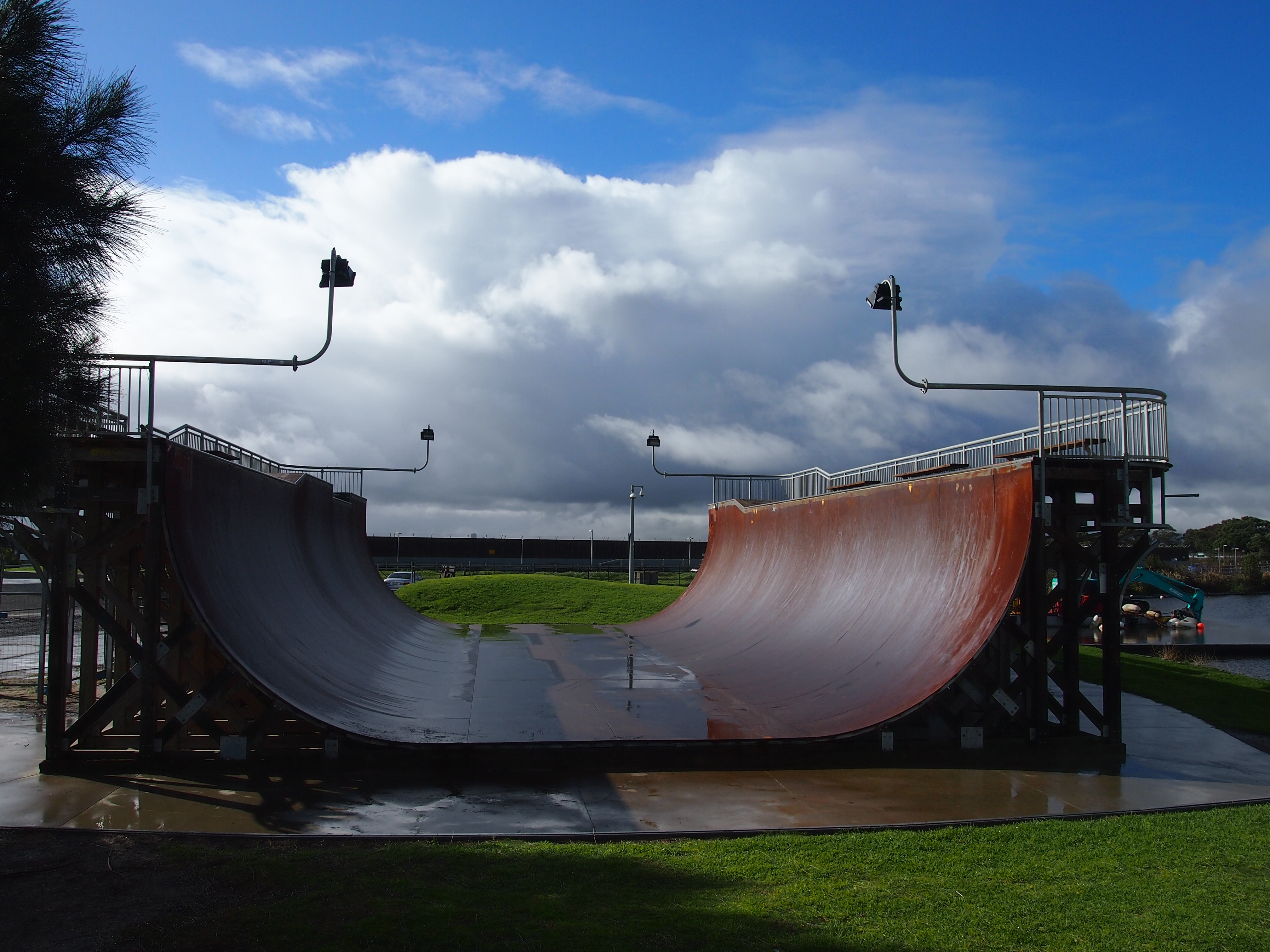 West Beach Skate Park West Beach, South Australia - half-pipe Original filename = P6303029.JPG